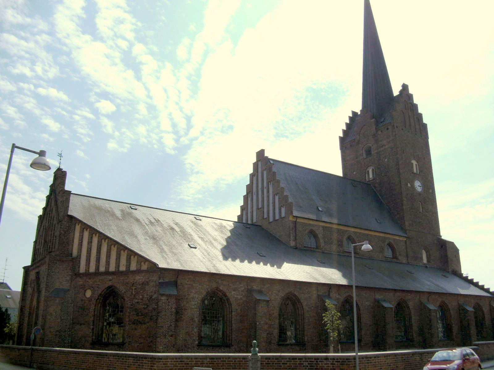 Sankt_Nikolai Church in Nakskov, Community of Guldborgsund, diocese of Lolland-Falster. Date: 2010.08.16 Author: Sir48